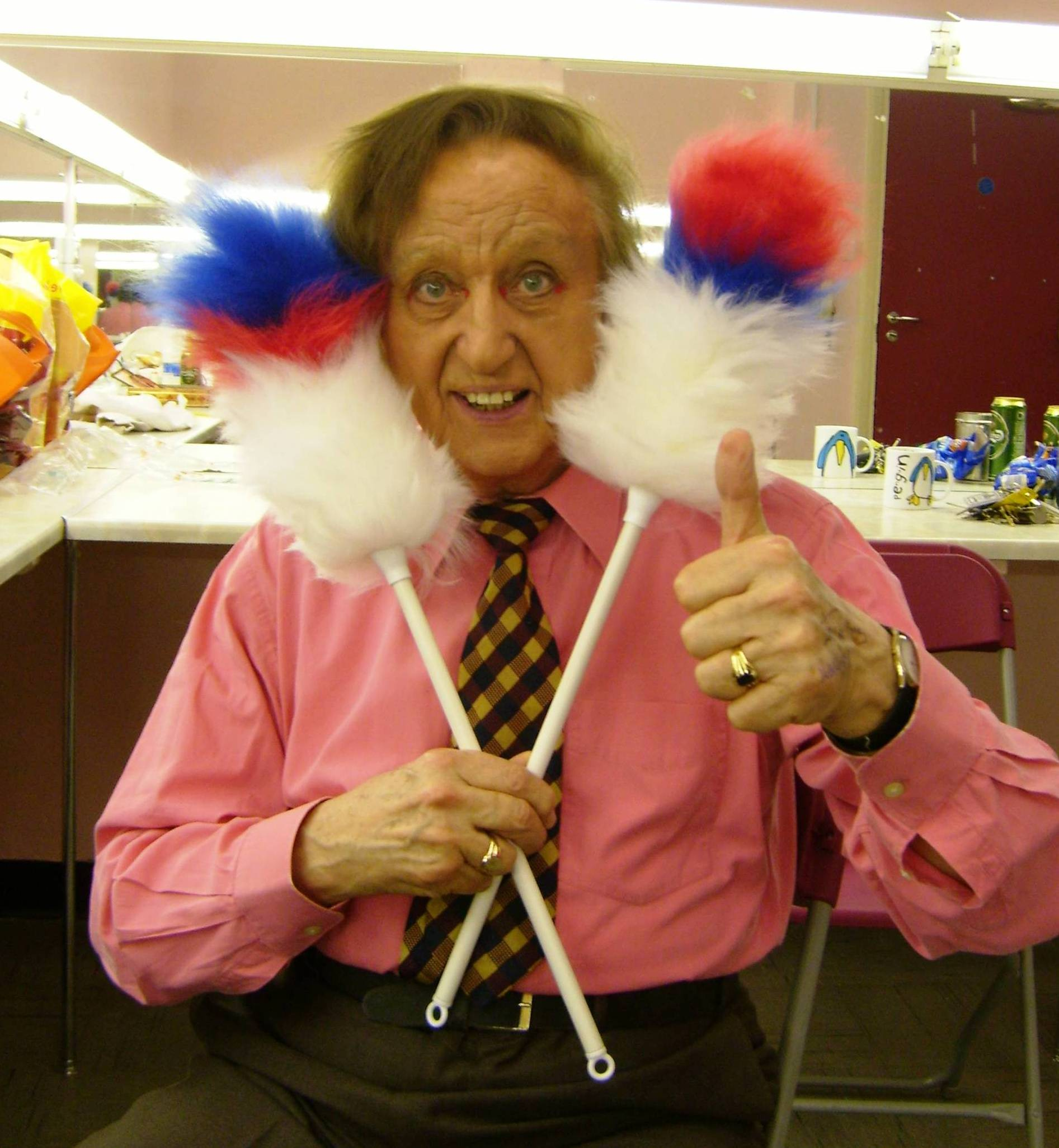 This is a picture I took of comedian Ken Dodd after I interviewed him at the Civic Hall Ellesmere Port in January 2007 David A Ellis